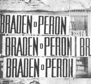 "Braden o Perón" (Spruille Braden or Juan Domingo Peron) was a political campaign in 1946, when Peron was elected president of Argentina